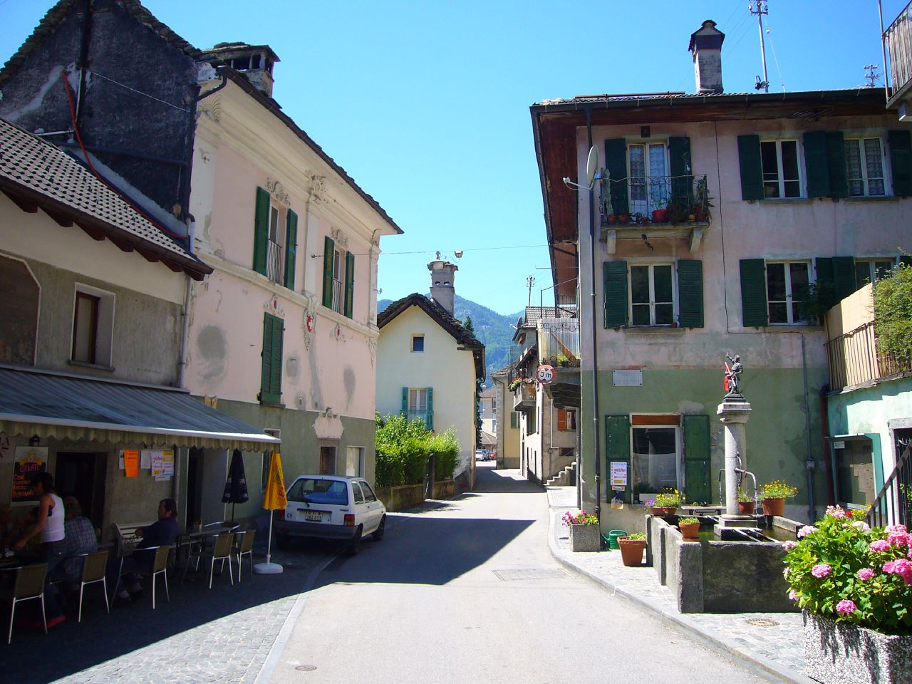 House near Isorno, Ticino, Switzerland